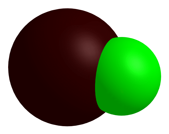 3D Spacefill of Astatine chloride